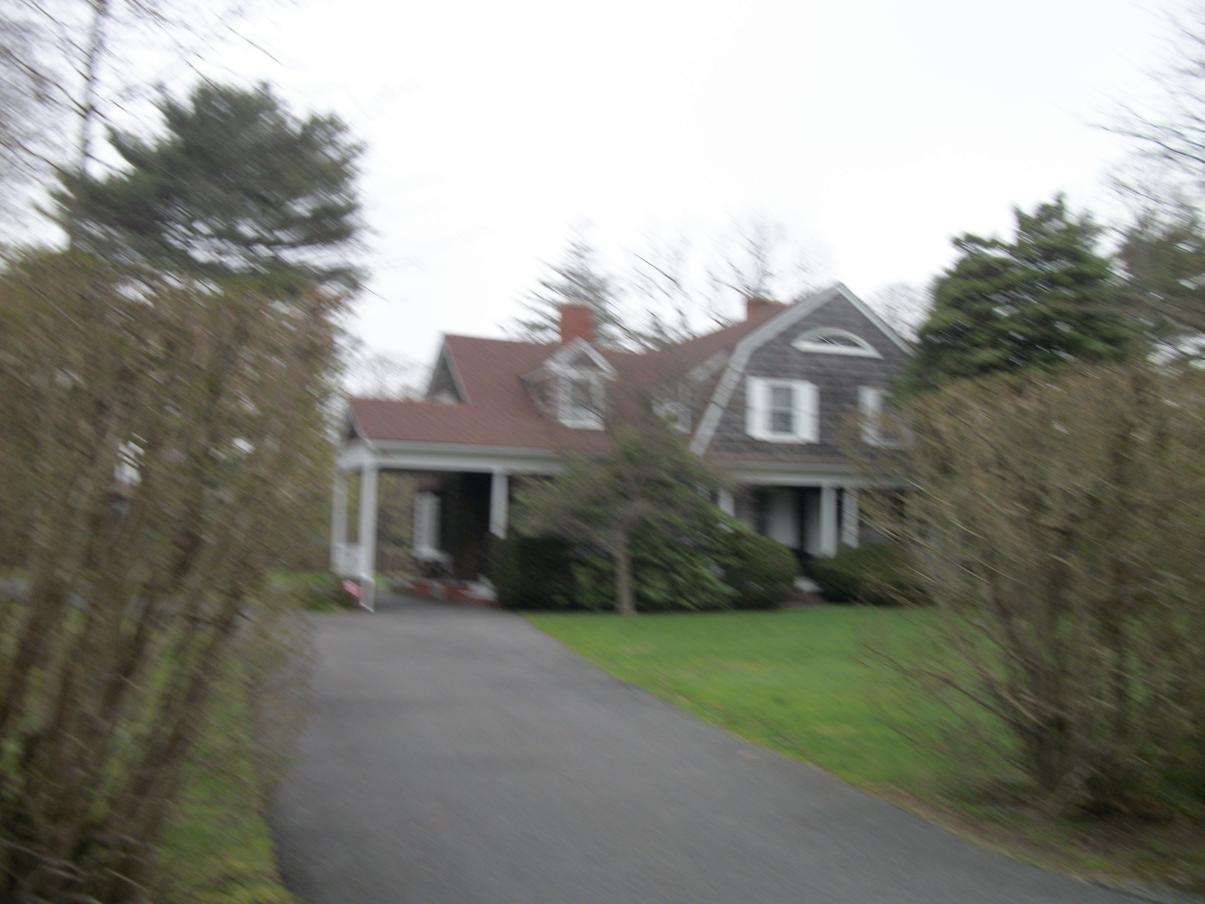 Blurry picture of the Joseph Wood House in Sayville, New York. I considered taking a pic in June 2010, but because it was private property, I changed my mind about it. This time I decided to take it anyway, and I was in a rush, so I apologize for the quality.